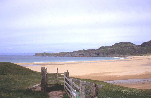 Traigh Bàn, Kiloran Bay, Colonsay.